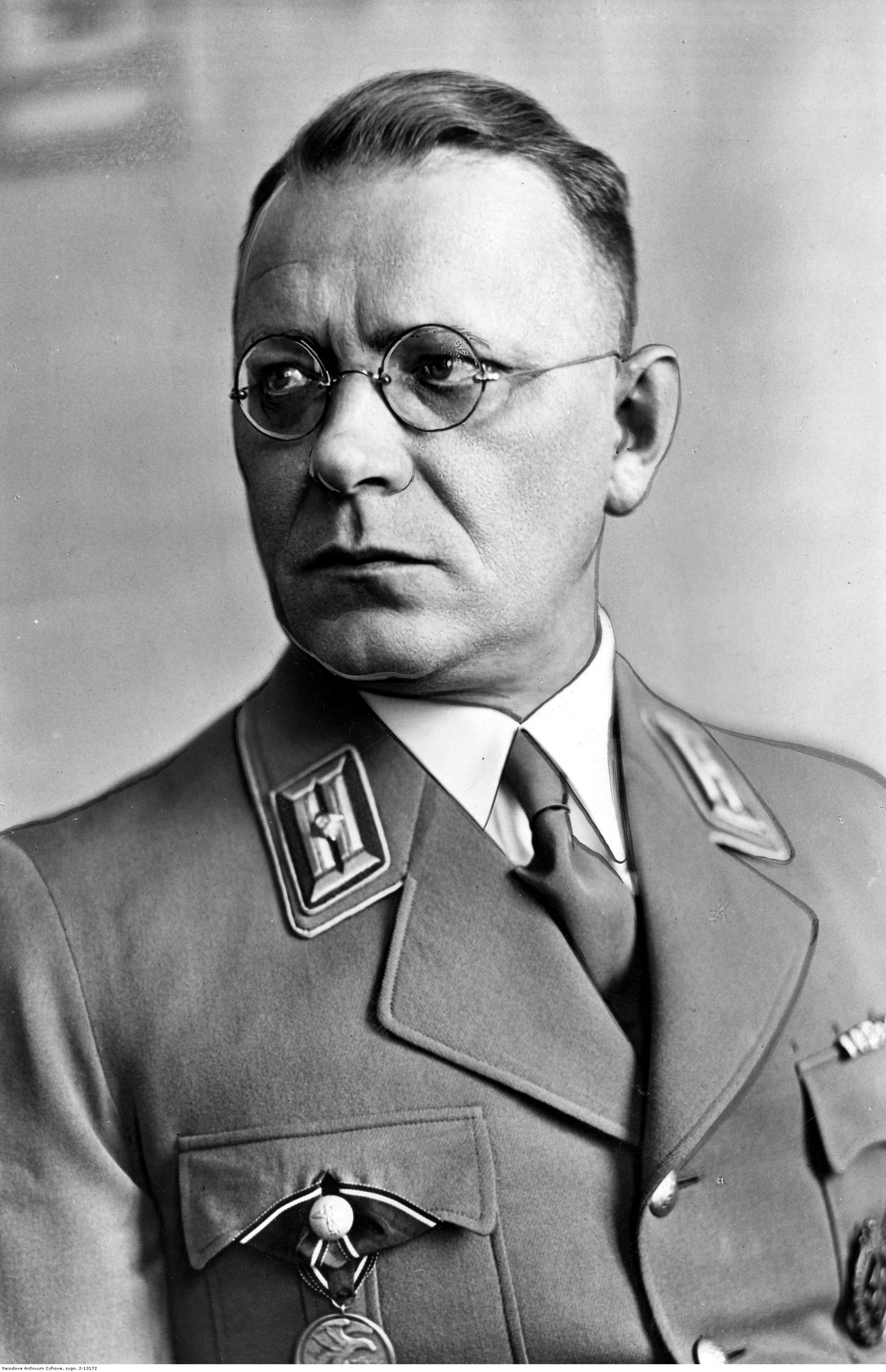 Richard Büchner. Portrait photography.